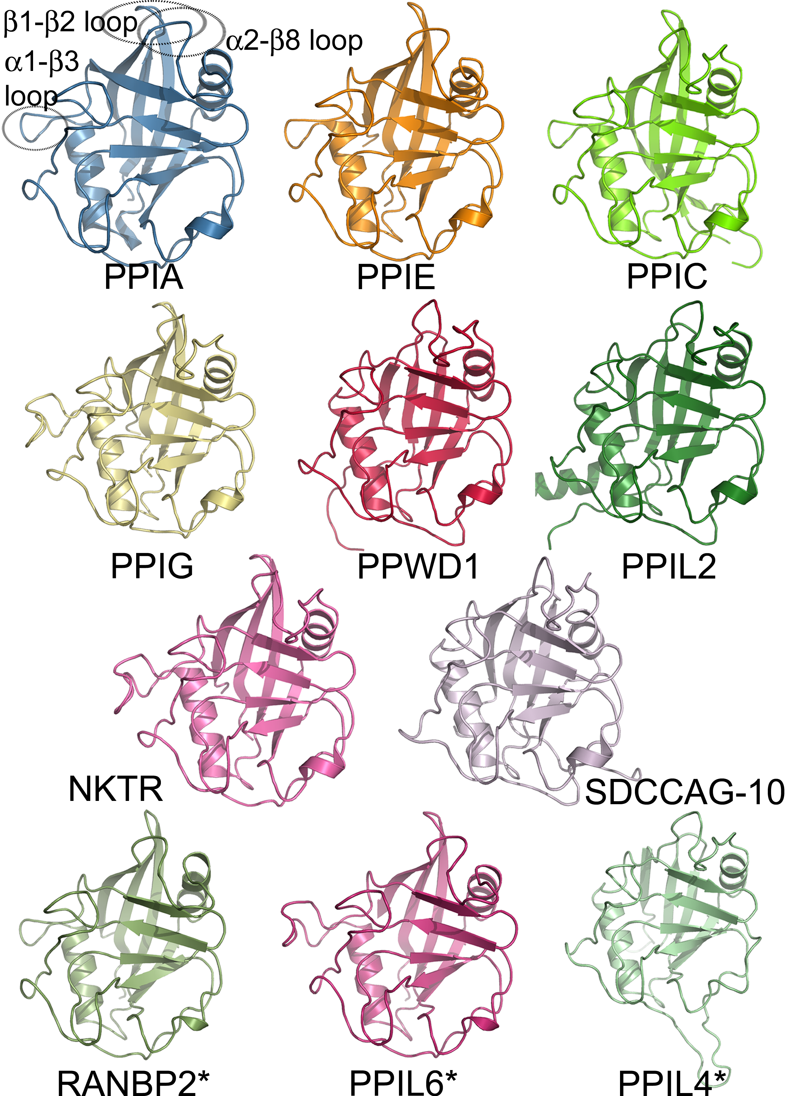 Cartoon representation of the novel experimental and modeled structures of human cyclophilins associated with Davis et al., PLoS Biol 8(7): e1000439, 2010. Only the isomerase domain is shown. The previously determined structure of PPIA is shown as a reference point, and loop regions discussed in the text are outlined with dotted ovals and labeled. The structures of RanBP2, PPIL6, and PPIL4 are marked with an asterisk, as they are derived from homology modeling and do not represent experimentally derived data.